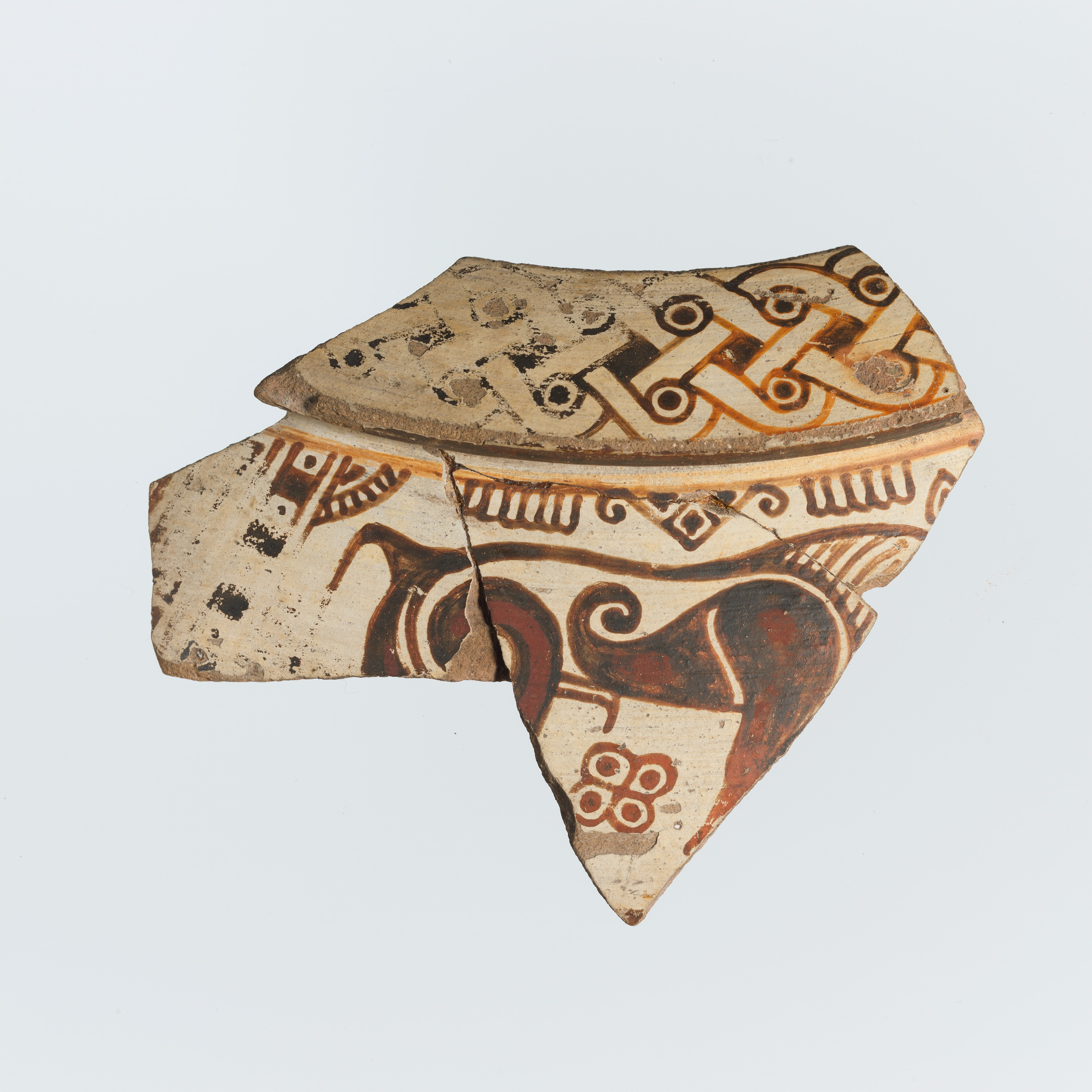 Three fragments joined; bull.